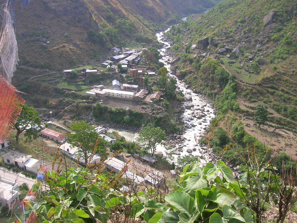 A river side village in Rasuwa District in Nepal.